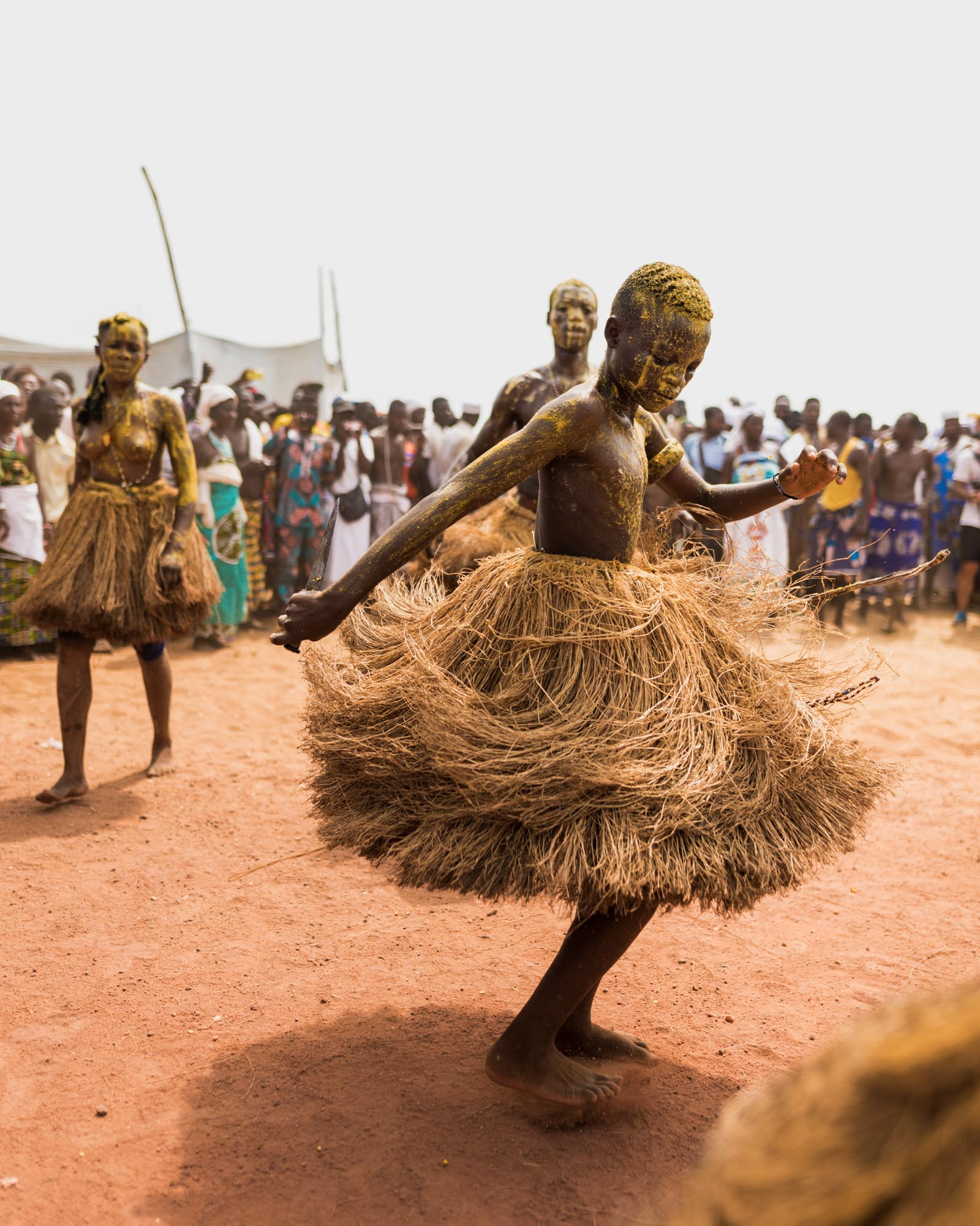 Voodoo, an ancient and significant part of the culture of southern Benin is celebrated every year across the southern coast. In Grand-Popo, Benin, a beachfront town on the border of Togo, a young child dances covered in a mustard ceremonial mixture. This is an image with the theme "Play" from: Benin